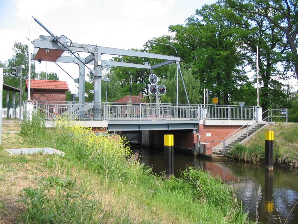 Bascule bridge and lock "Findenwirunshier" (en: "we-find-us-here") in Neu Kaliß, Germany at river Müritz-Elde-Wasserstraße